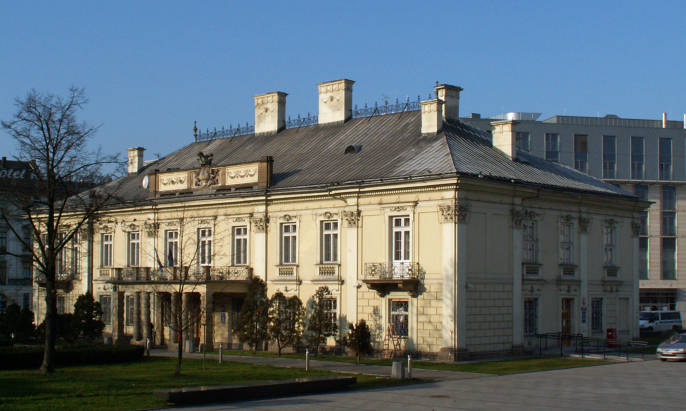 Wołodkowicz Mansion, 4 Lubicz street, Krakow, Poland